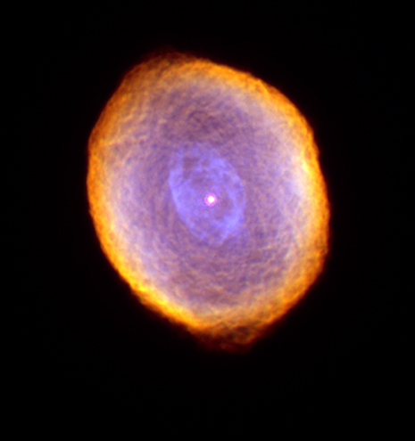 The Spirograph Nebula (IC 418), photographed by the Hubble Space Telescope's Wide Field Planetary Camera 2.